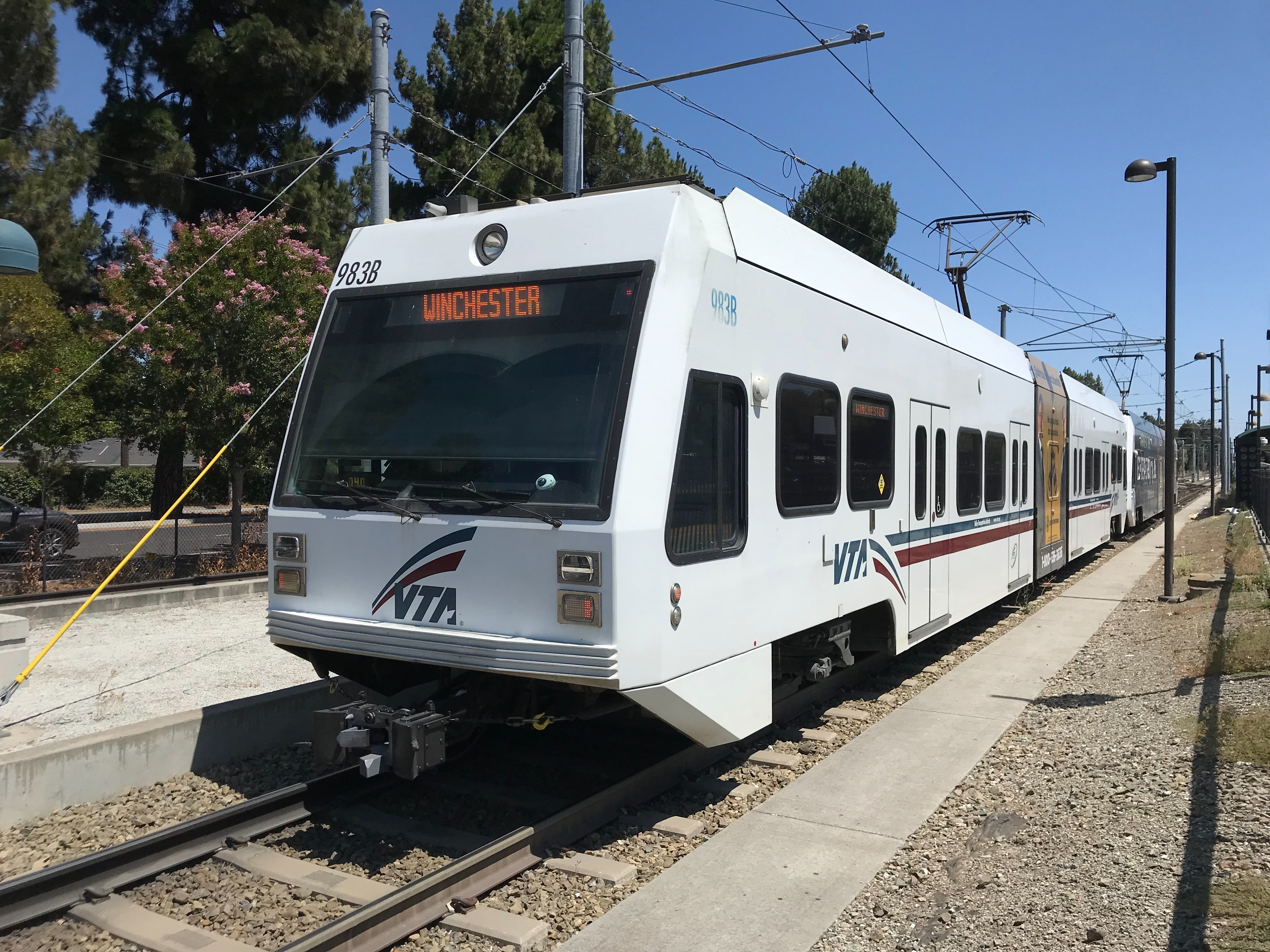 A Santa Clara Valley Transportation Authority (VTA) light rail train at Mountain View Station on the Mountain View–Winchester Line bound for Winchester. Taken on Aug 8, 2019 at 1:50 PM via iPhone 7.